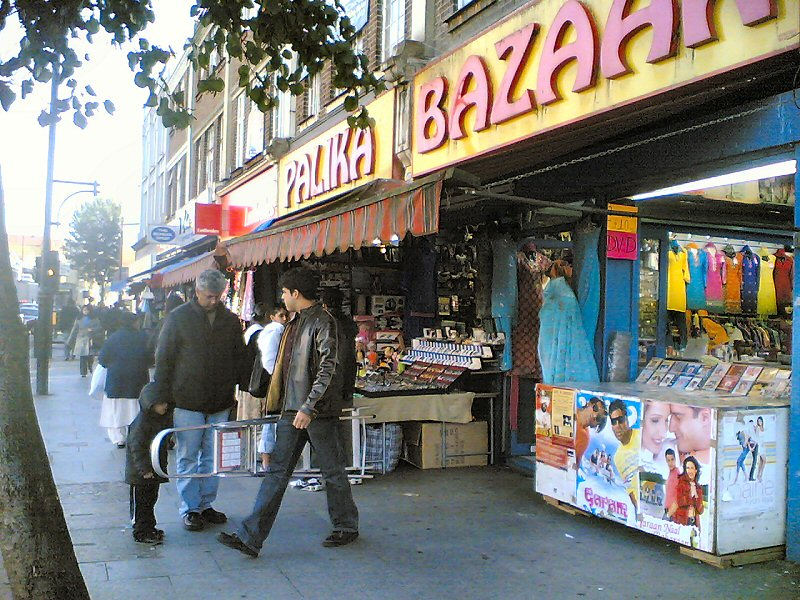 Southall Broadway, Southall (Middlesex), Greater London, UK